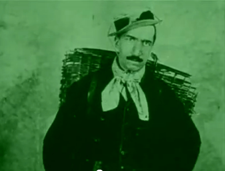 1916 screenshot of actor Marcel Lévesque in the Louis Feuillade-directed film series Les Vampires